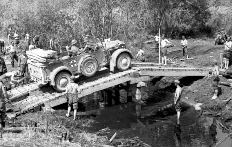 North-Russia, medical vehicle on bridge